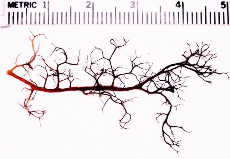 Alectoria nigricans (Ach.) Nyl., 1861 (photograph of a herbarium specimen showing pale brown main branches and black branch tips ) Growing on a sandy ridge near Meade River, Alaska, USA; collected and identified by Allen C. Skorepa (No. 7381, Jul 1973); specimen is now in the Lichen Herbarium of the New York Botanical Garden. (millimeter scale)